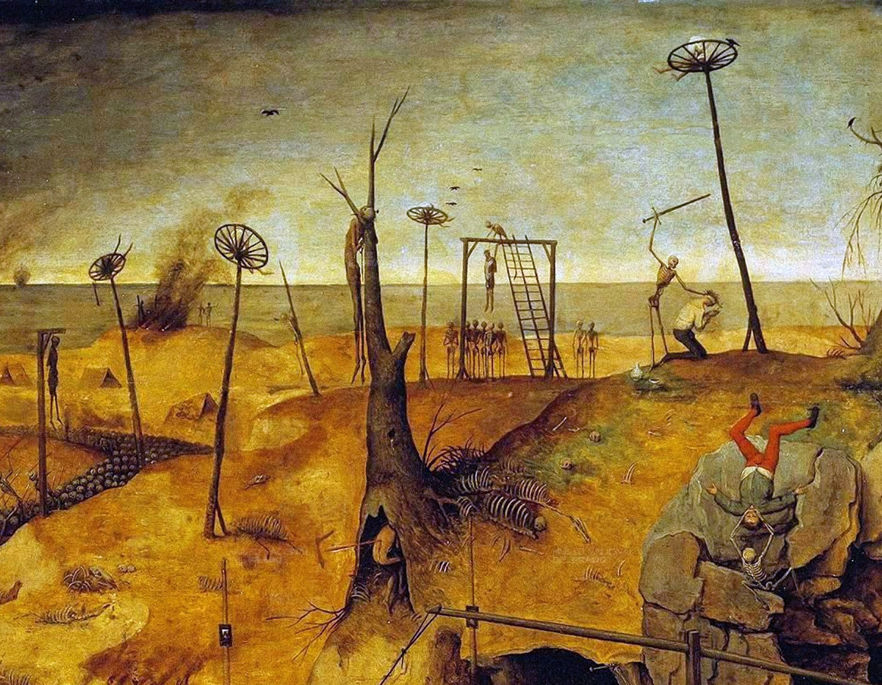 Detail of Dutch landscape with breaking wheels, c.1562